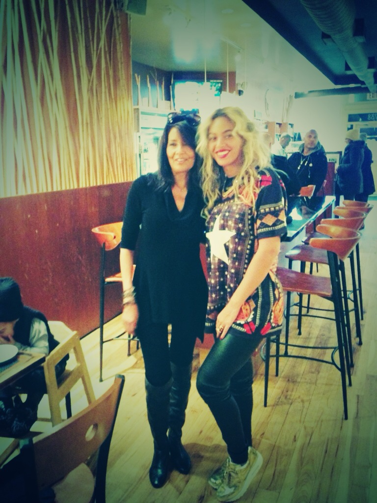 Karyn Calabrese and Beyonce Knowles at Karyn's Cooked in Chicago, IL on December 14, 2013.